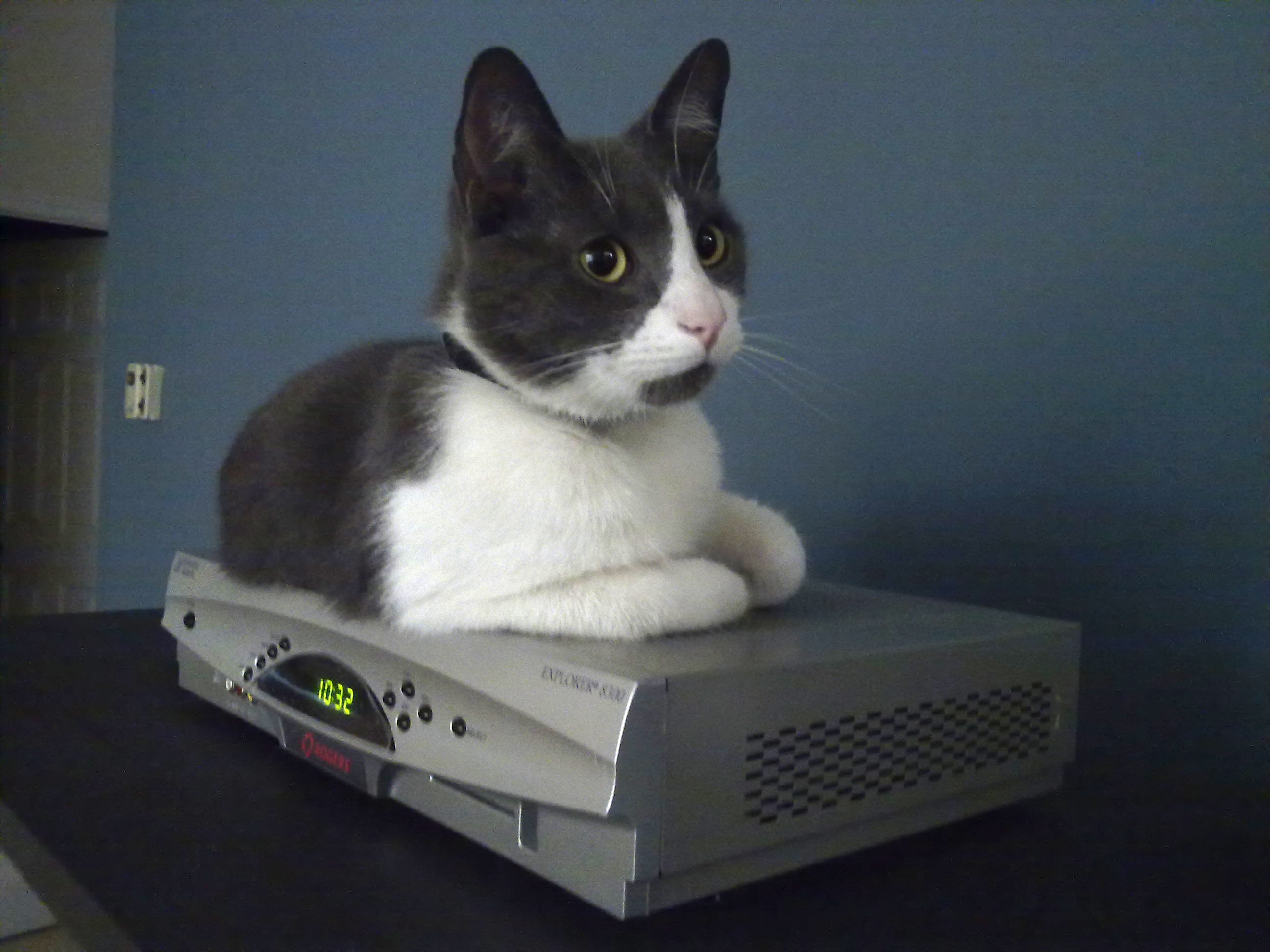 Rogers Cable box + cat